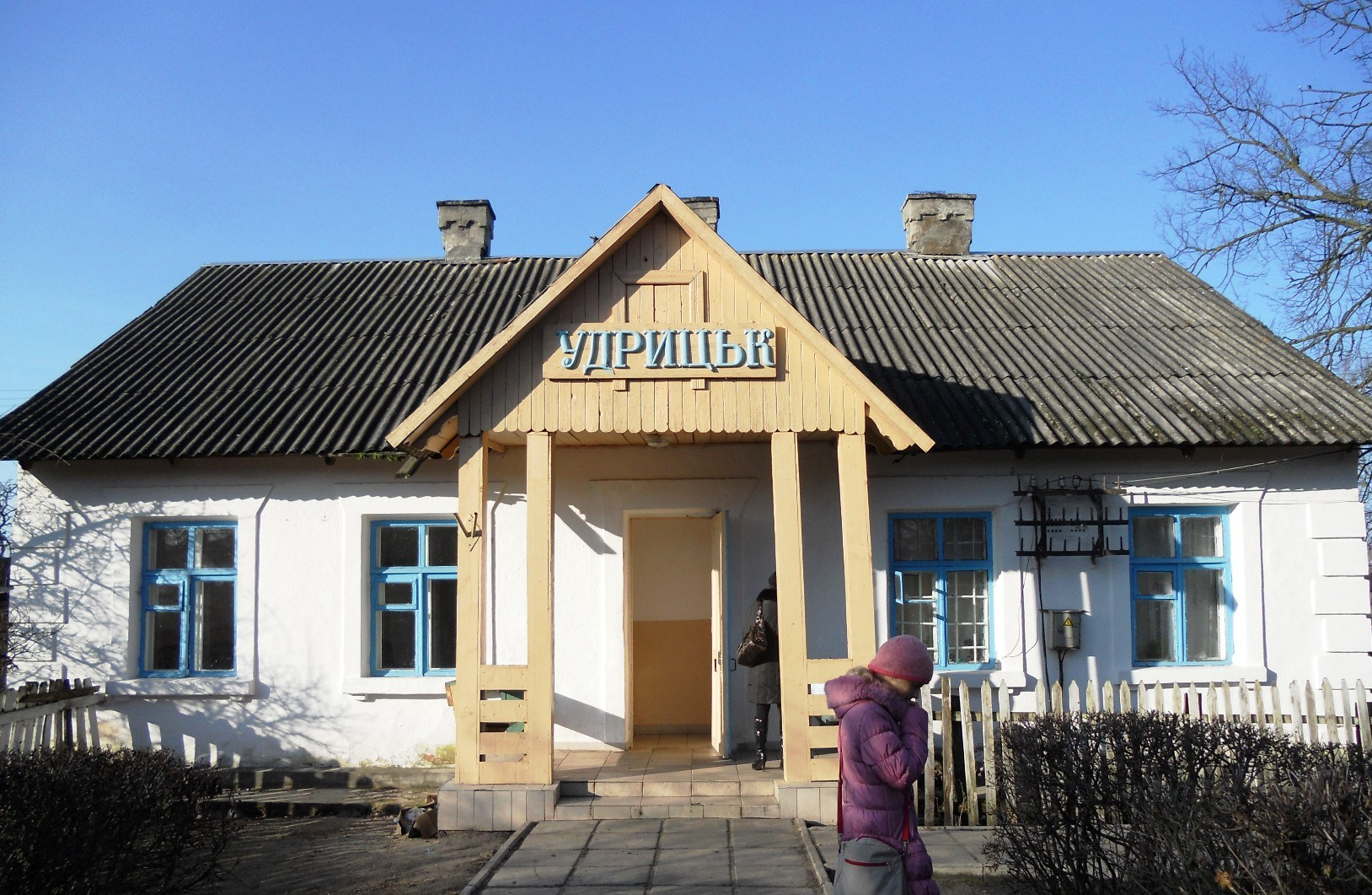 Udryk railway station